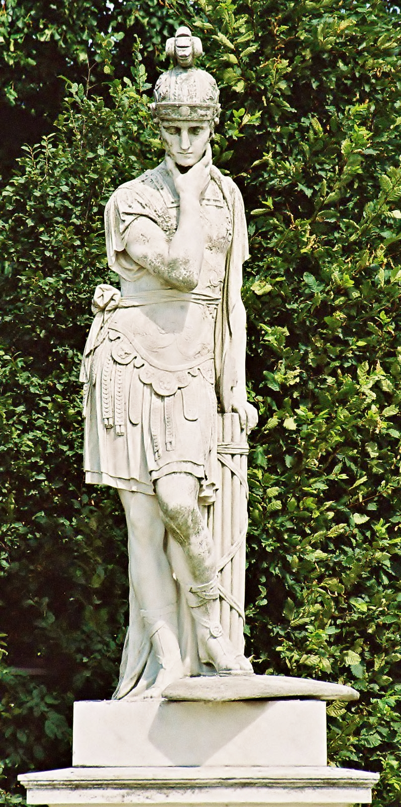 Vienna, Schönbrunn gardens, statue Fabius Cunctator (Quintus Fabius Maximus Verrucosus)